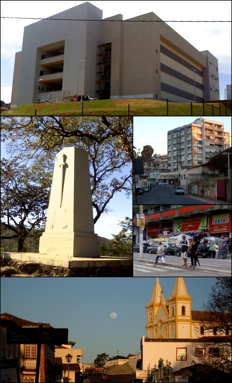 Photo montage of the city of Santa Luzia, Brazil. From the top, left to right: New building of the Forum in the County Judge Pedro Viana de Santa Luzia, Monument to the brave of the Liberal Revolution of 1842, view of Floriano Peixoto Street in neighborhood Centro, view of Brasília Avenue, view da Matriz de Santa Luzia in Direita Street.